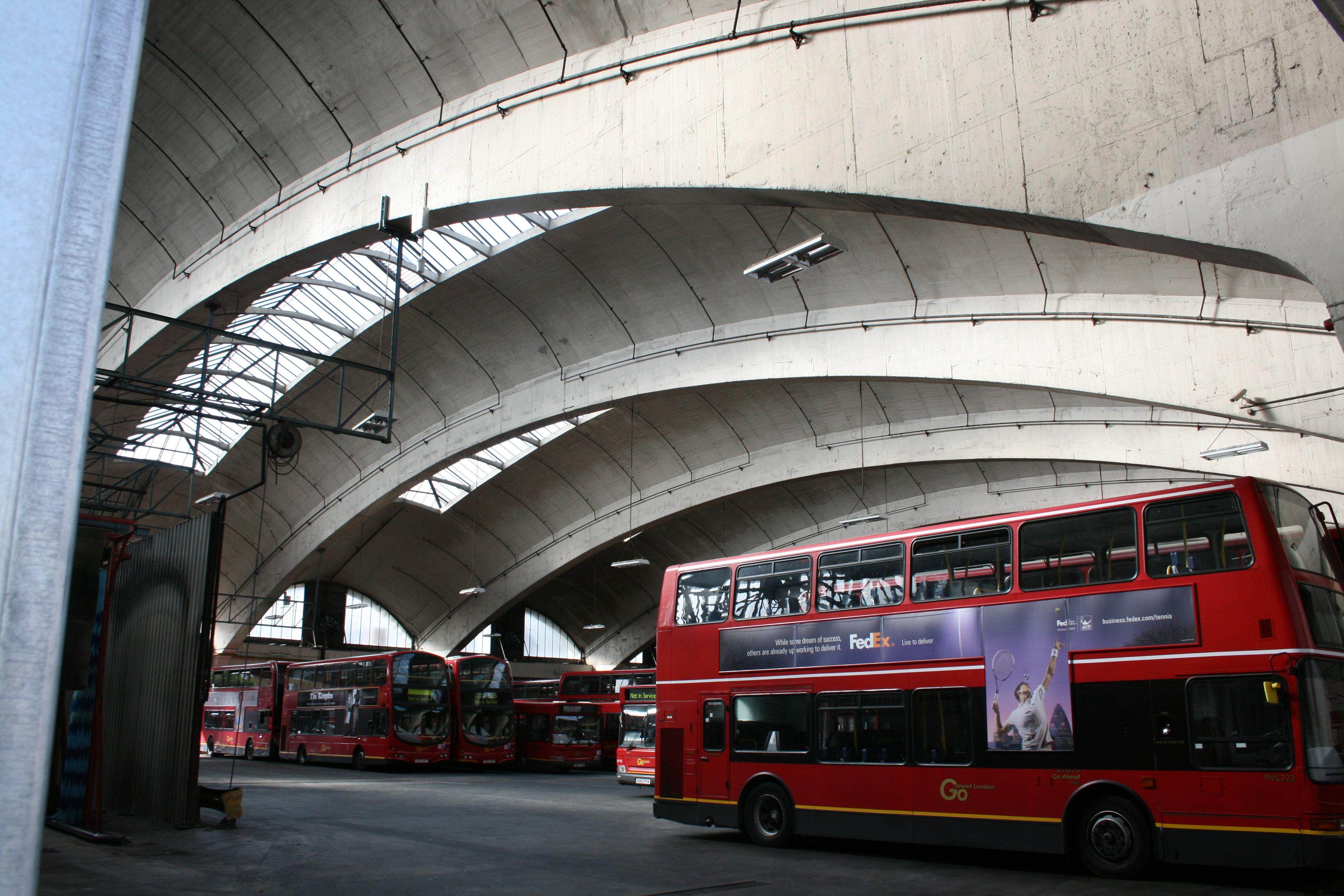 Stockwell Bus Garage